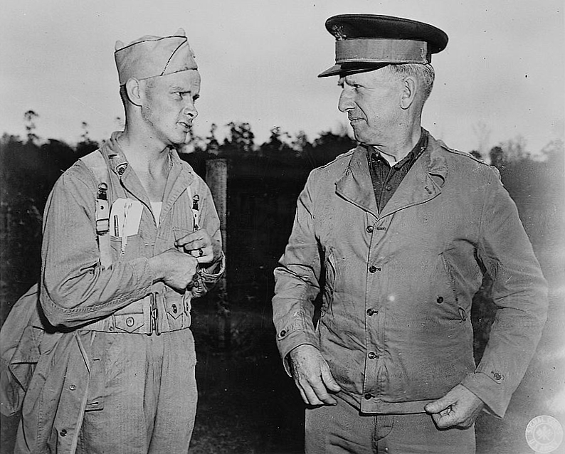 Lieutenant general Lesley J. McNair, right, commanding general of the U.S. Army ground forces, discussing with an umpire one of the problems being worked out at the recent maneuvers of the Third Army in Louisiana